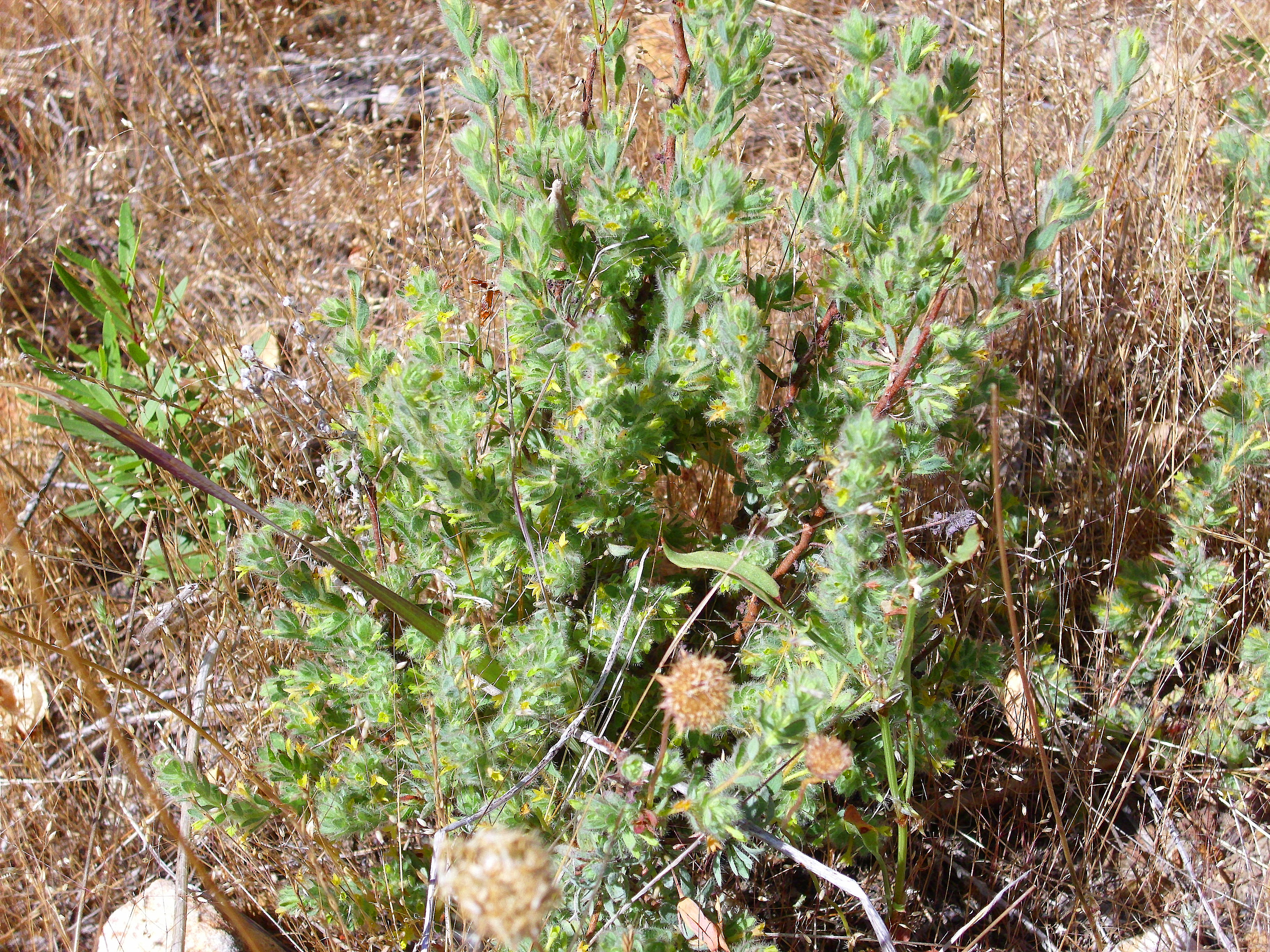 Thymelaea villosa habit, Sierra Madrona, Spain